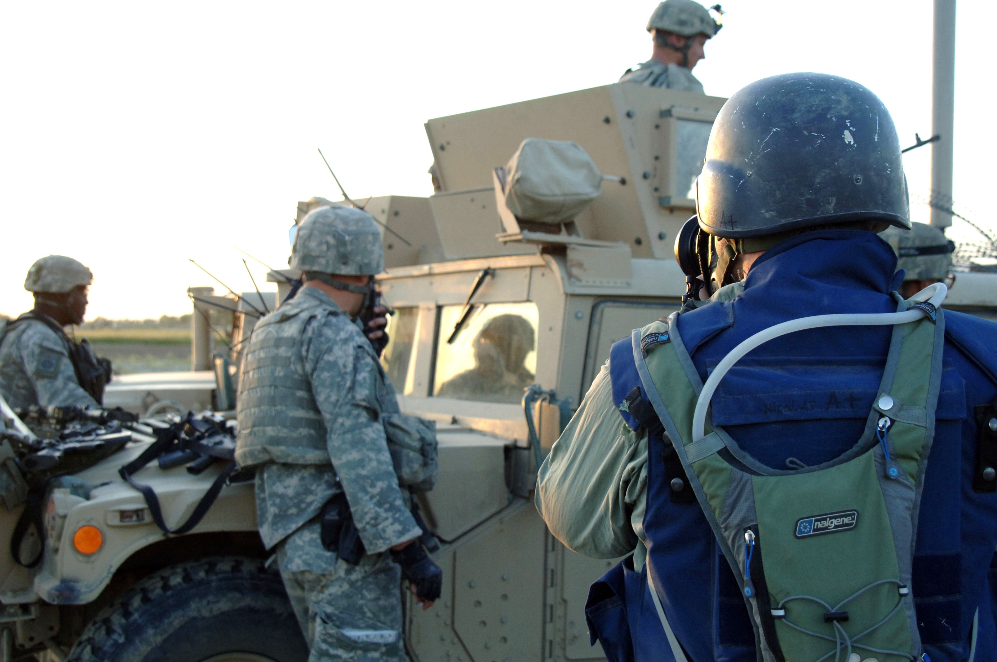 An embedded civilian photographer snaps a picture of the soldiers in Pana.